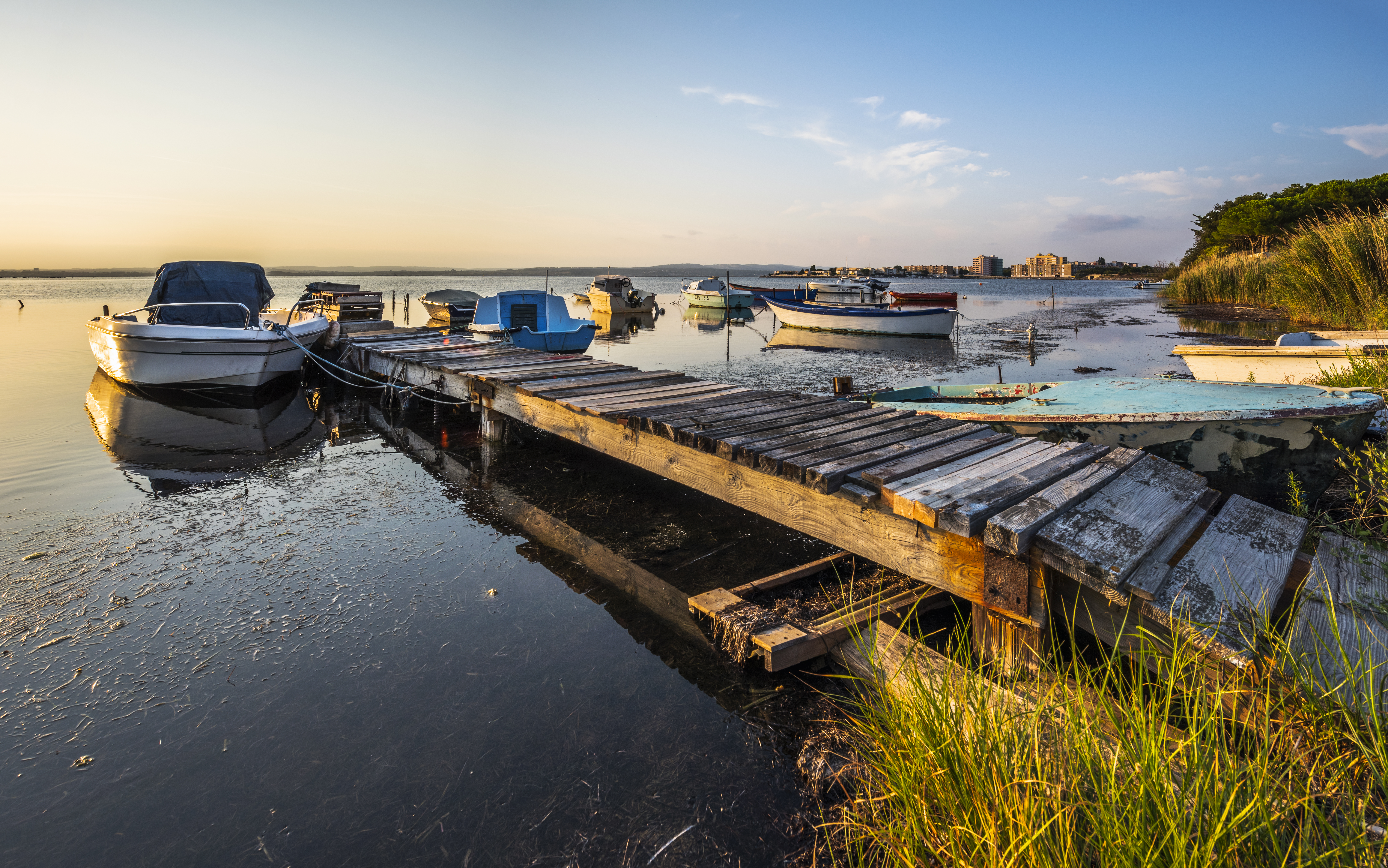 Boats in the Étang de Thau. In the background the neightborough "Île de Thau". Sète, Hérault, France